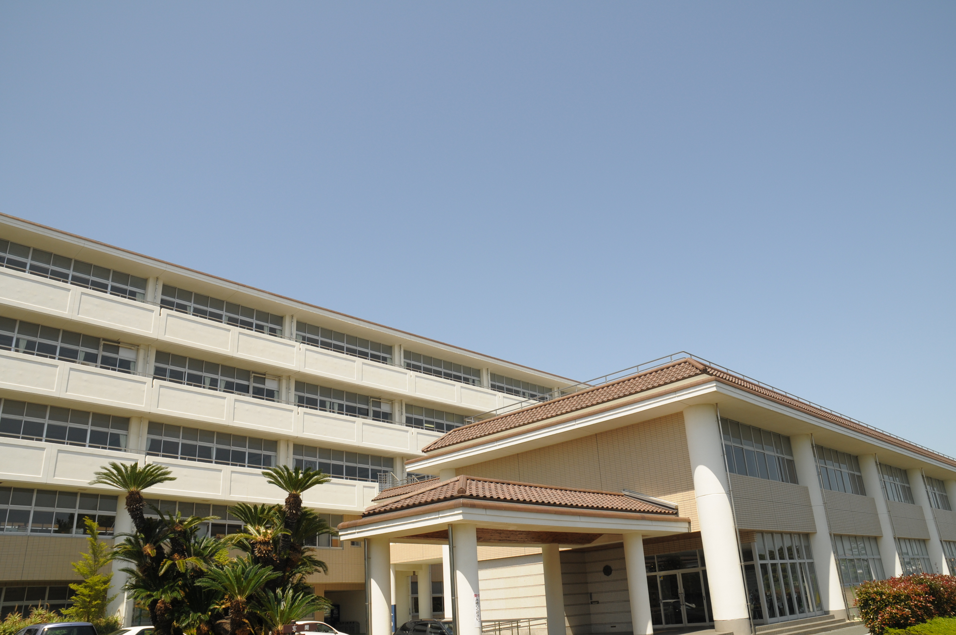 Shizuoka Prefectural Hamamatsu Nishi Senior and Junior High Schools, Hamamatsu, Shizuoka